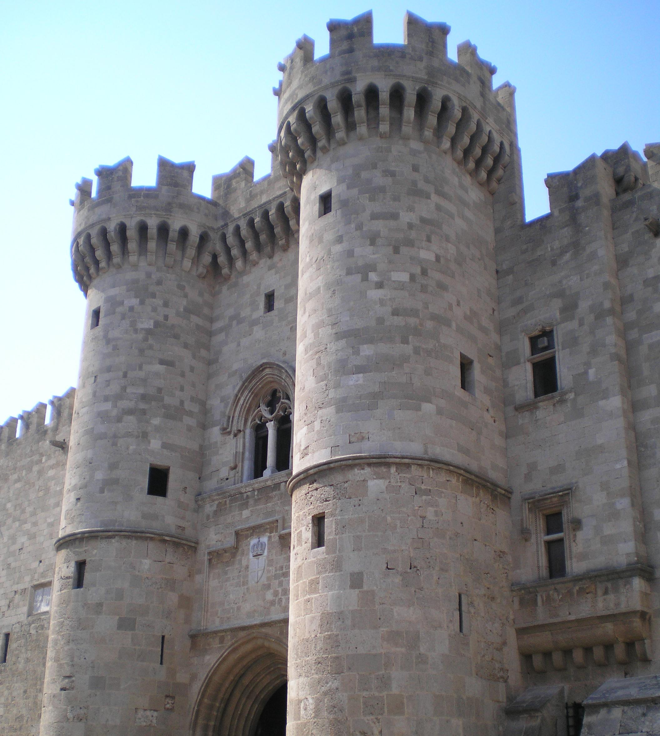 Palace of the Grand Master of the Knights of Rhodes, Greece.